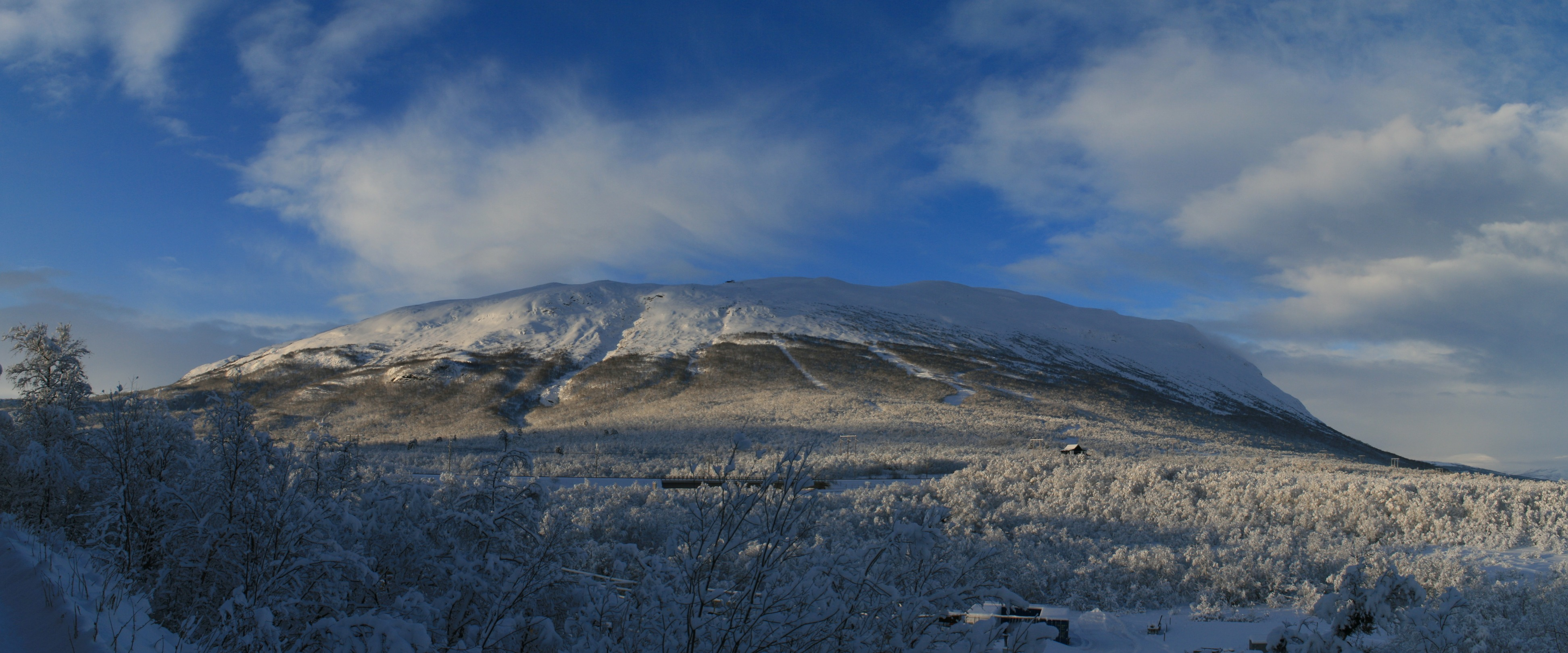 Panorama of Mt Nuola (Njullá) in winter, from Abisko national park.